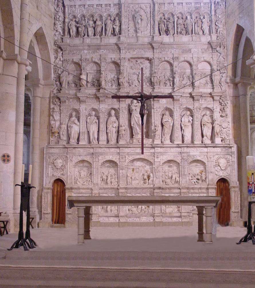 Altarpiece by Damián Forment in the monastery of Poblet.